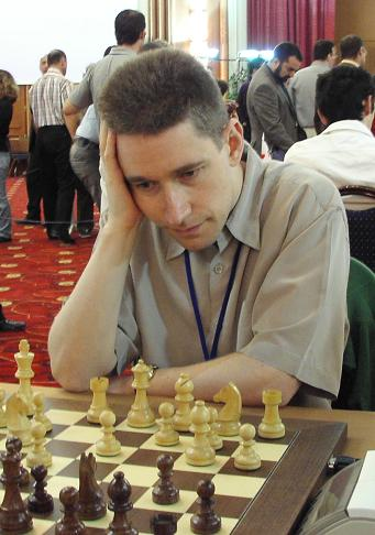 GM Michael Adams at Heraklion 2007. Photo cropped from Image:Adams Michael 2007.jpg.